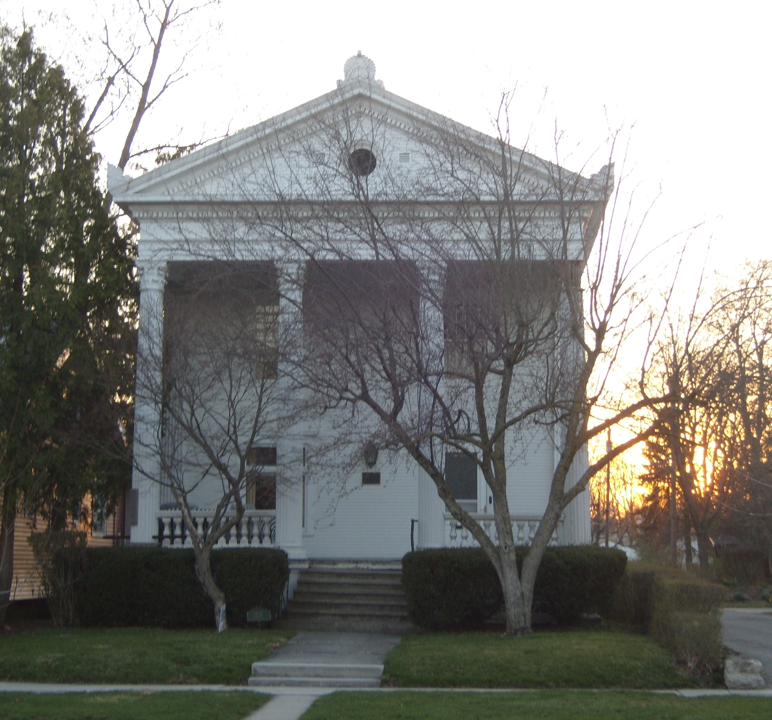 Front of the Dr. Albert Linaweaver House, located at 1224 S. Main Street in Findlay, Ohio, United States. Built in 1904, the Neoclassical house is listed on the National Register of Historic Places.